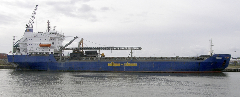 IMO number: 7531369 Call Sign: V2BB8 Gross tonnage: 6355 Year of build: 1978